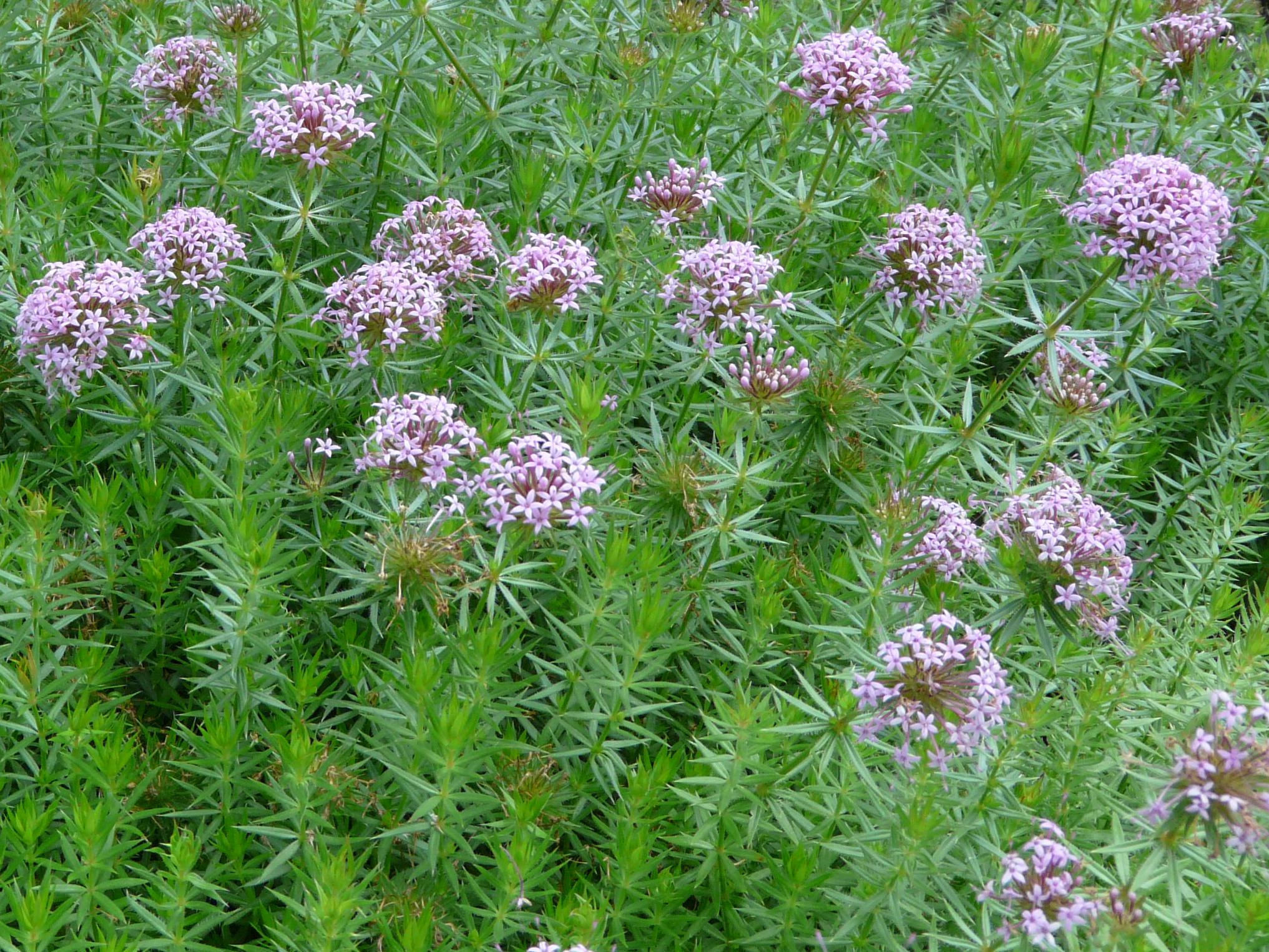 Phuopsis stylosa (Botanical Gardens Utrecht)